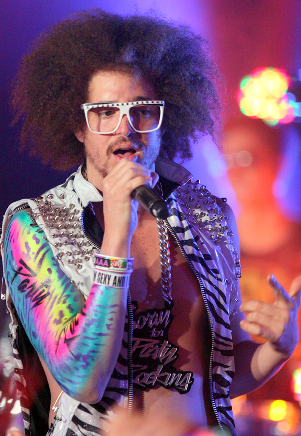 LMFAO, Debit Mastercard, Take 40, 2011.